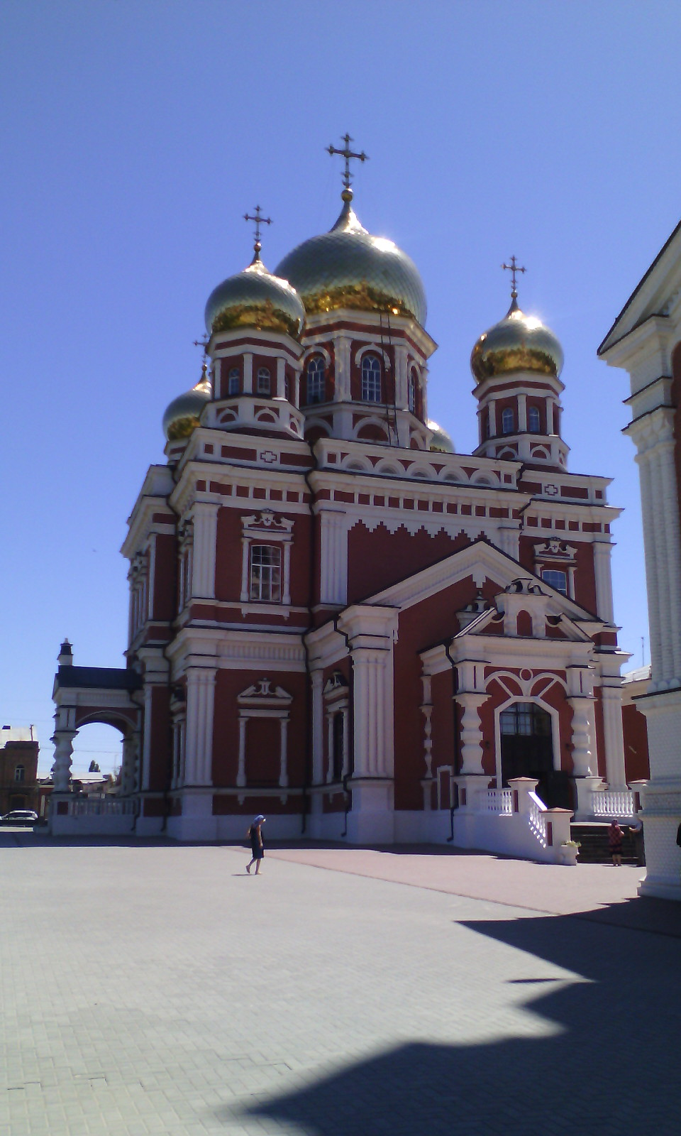 Church of the Intercession of the Holy Mother (Church of Pokrov), Gorky St., Saratov